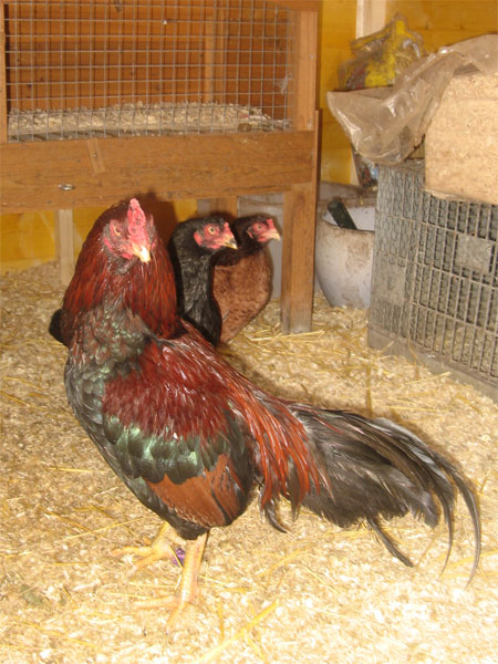 Chickens, Breed Asil, Type Reza Asil, cock and two hens, colours black, wheaten, black-breasted black-red